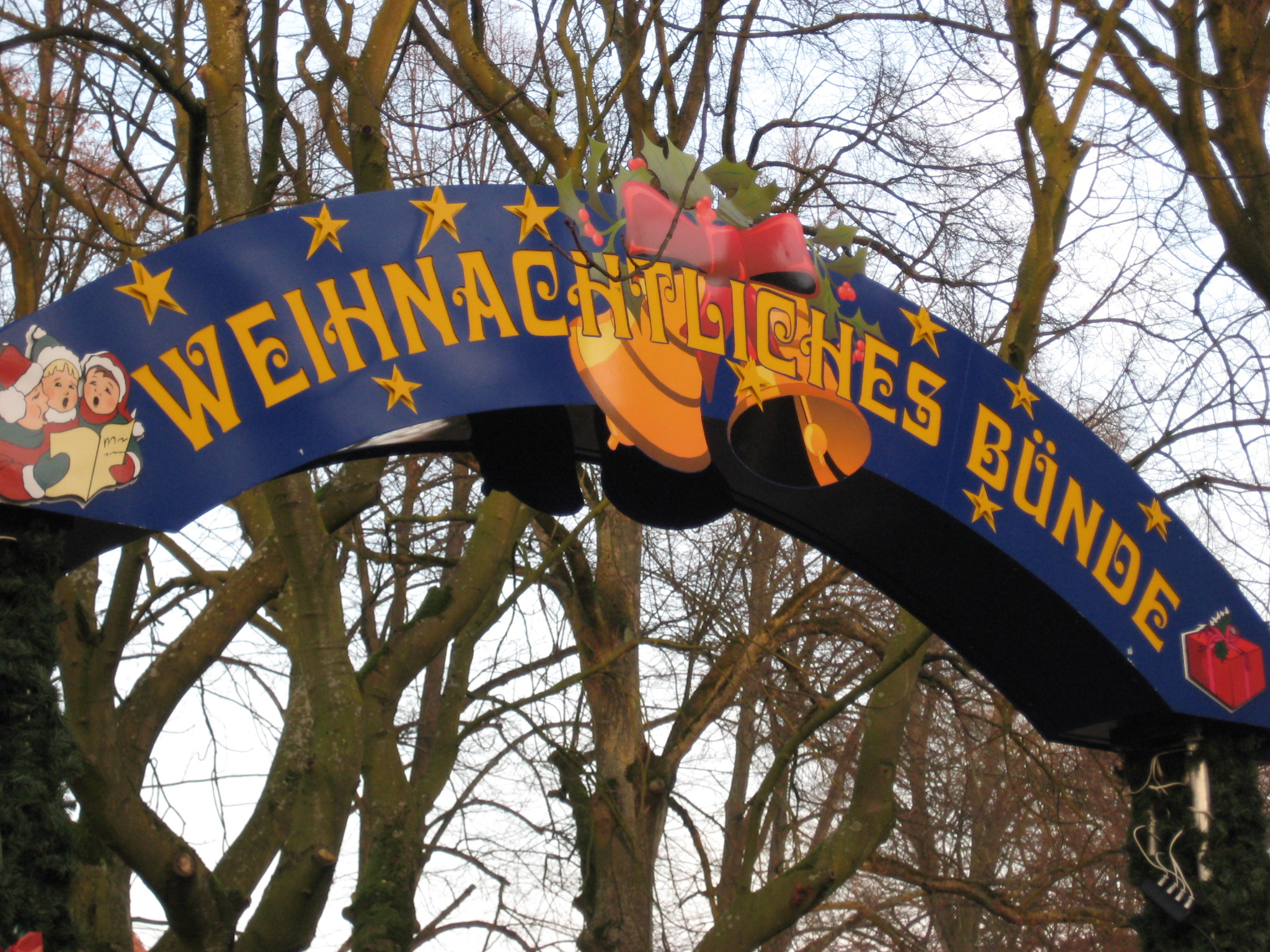 in Bünde, District of Herford, North Rhine-Westphalia, Germany.